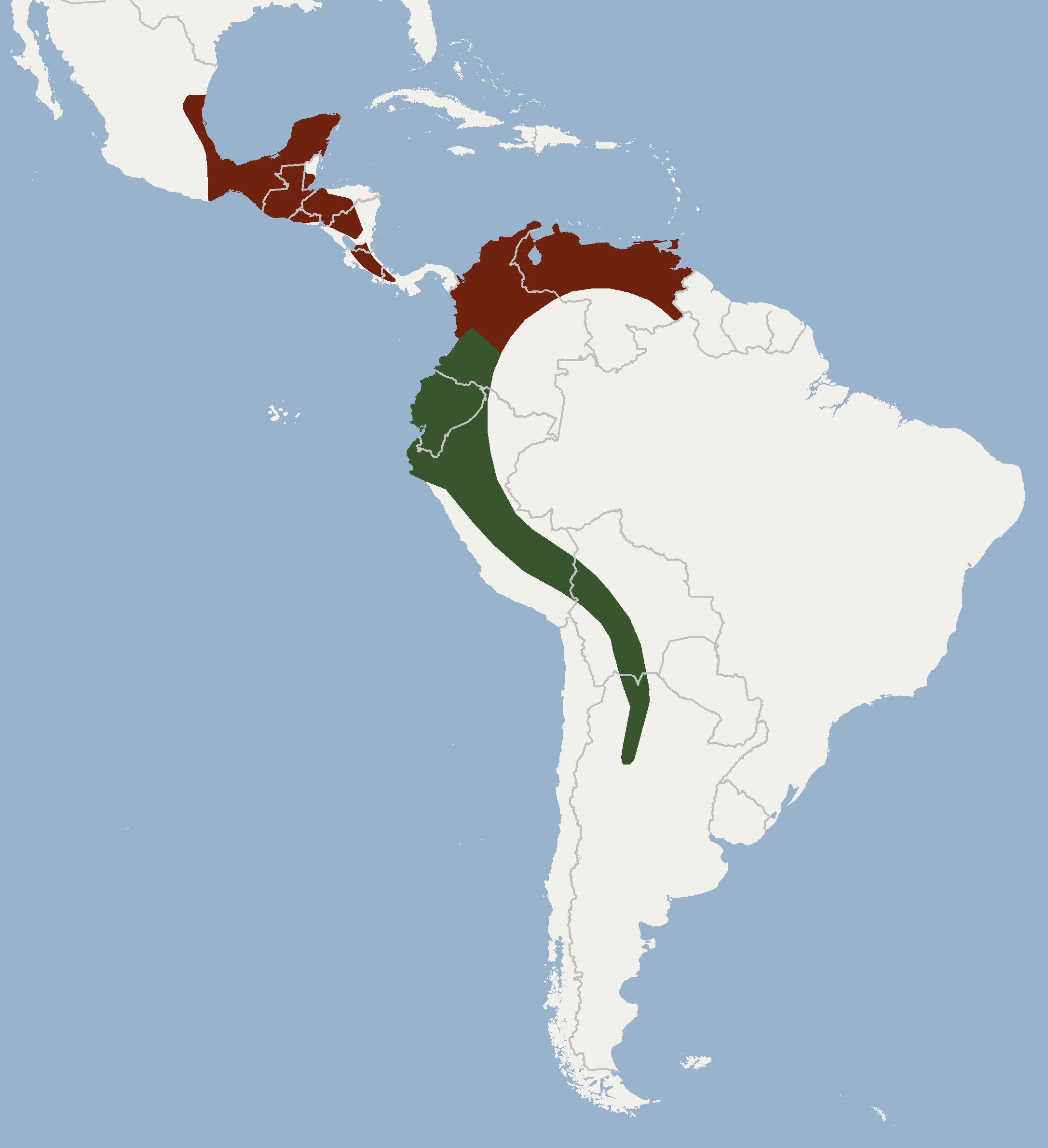 According to Hernandez-Meza & al., 2005